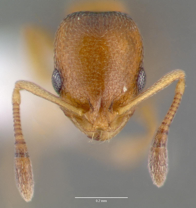 Head view of ant Cardiocondyla emeryi specimen casent0005964.